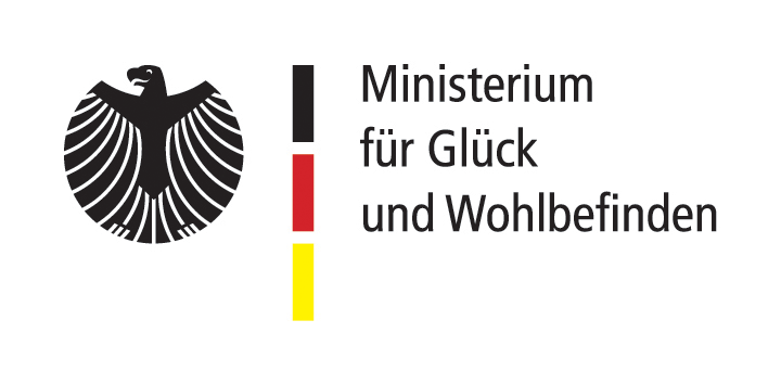 This is the official logo of the campaign "Ministry of happiness and well-being" in Germany.